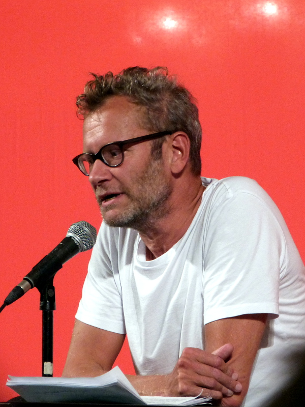 German author Tex Rubinowitz, at the Erlanger Poetenfest 2014.